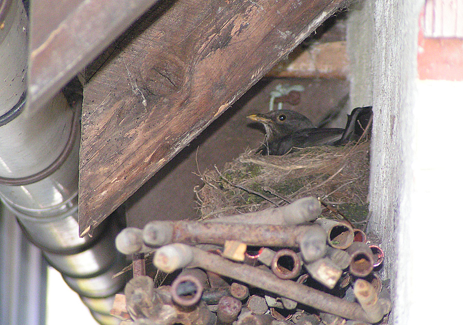 Blackbird (Turdus merula) in her nest under the roof in the village Erritsø outside Fredericia, Denmark